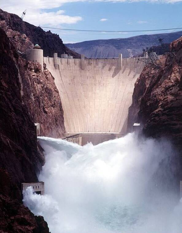 View of Hoover Dam with jet-flow gates open (image cropped).